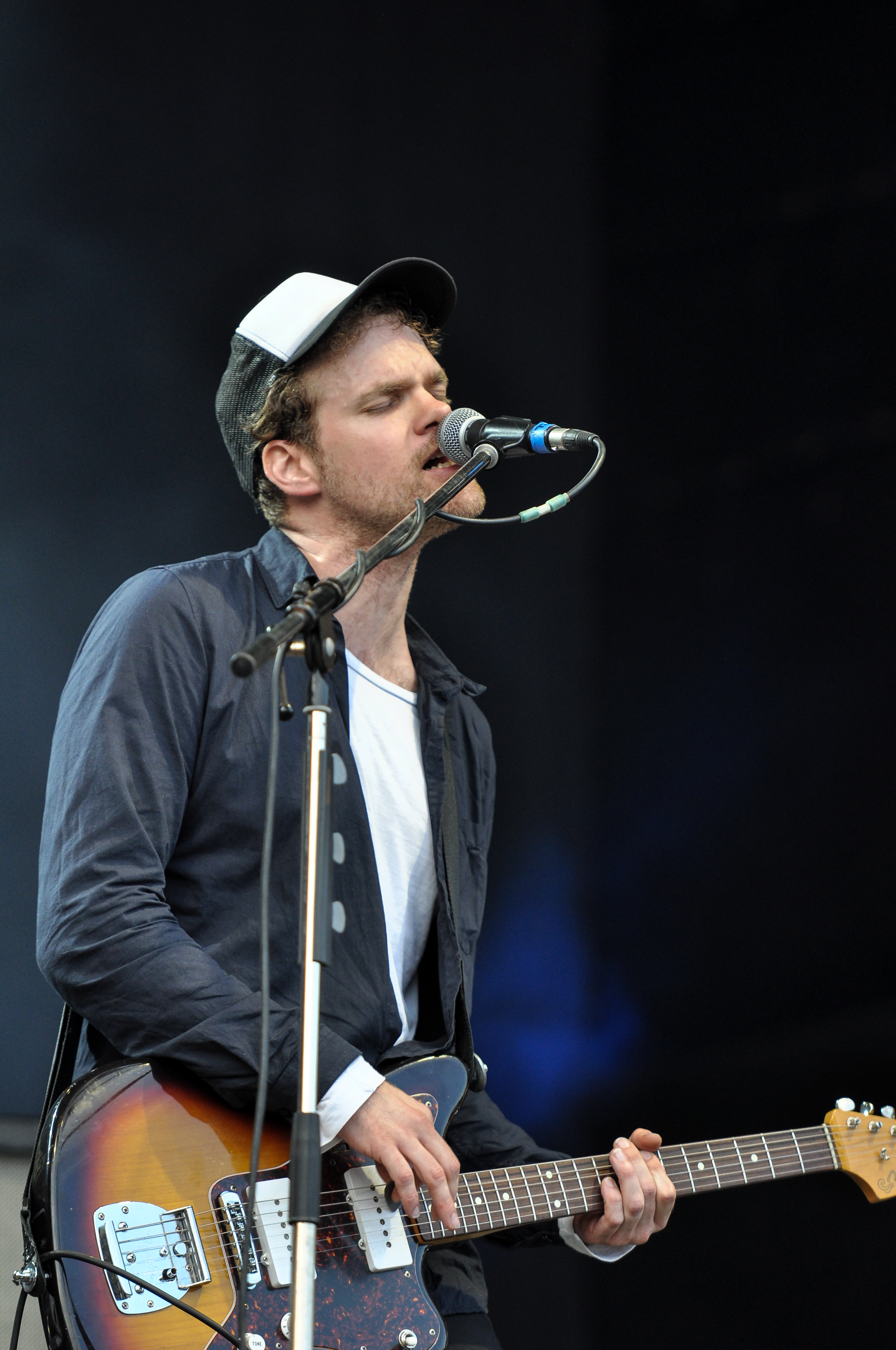 Tobias Kuhn performing with Thees Uhlmann at Greenville Festival 2013